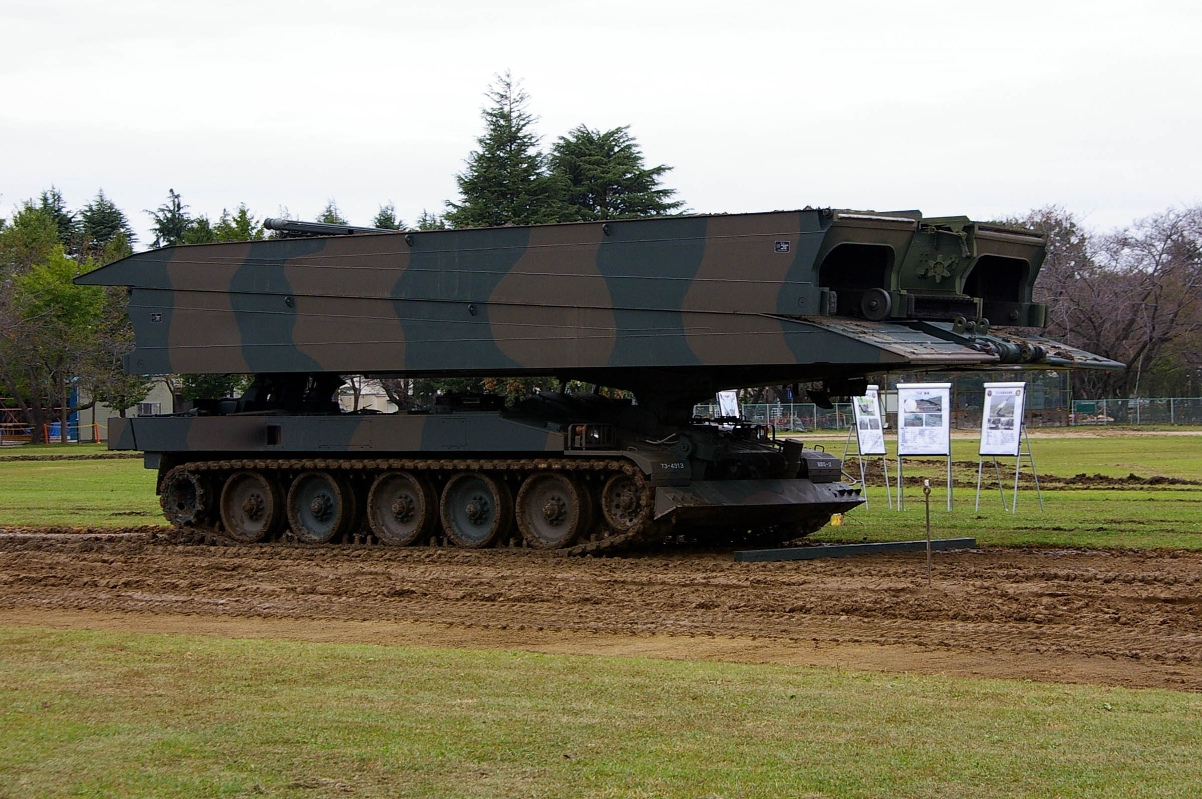 JGSDF Type91_Armoured_vehicle-launched_bridge.Taken by Los688,at Camp Katsuta,25-Oct-2008.PD-self